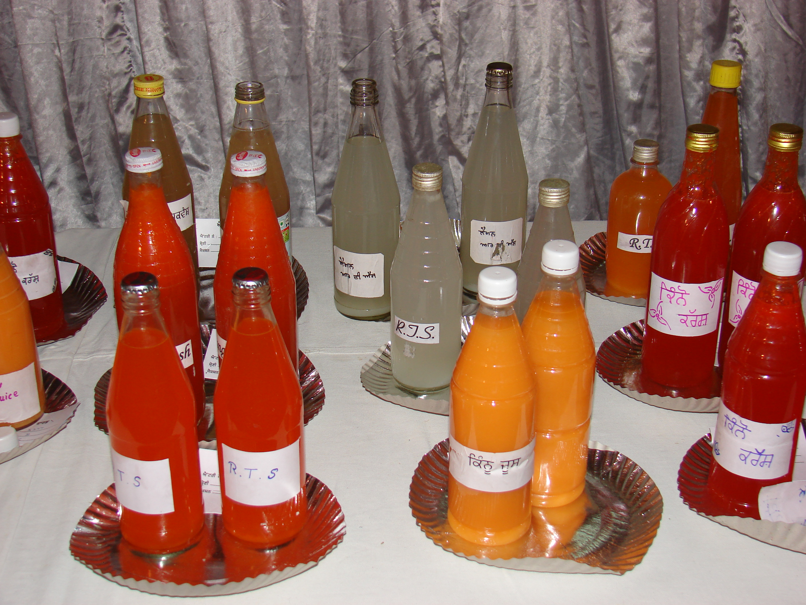 Products made by processing Kinnow